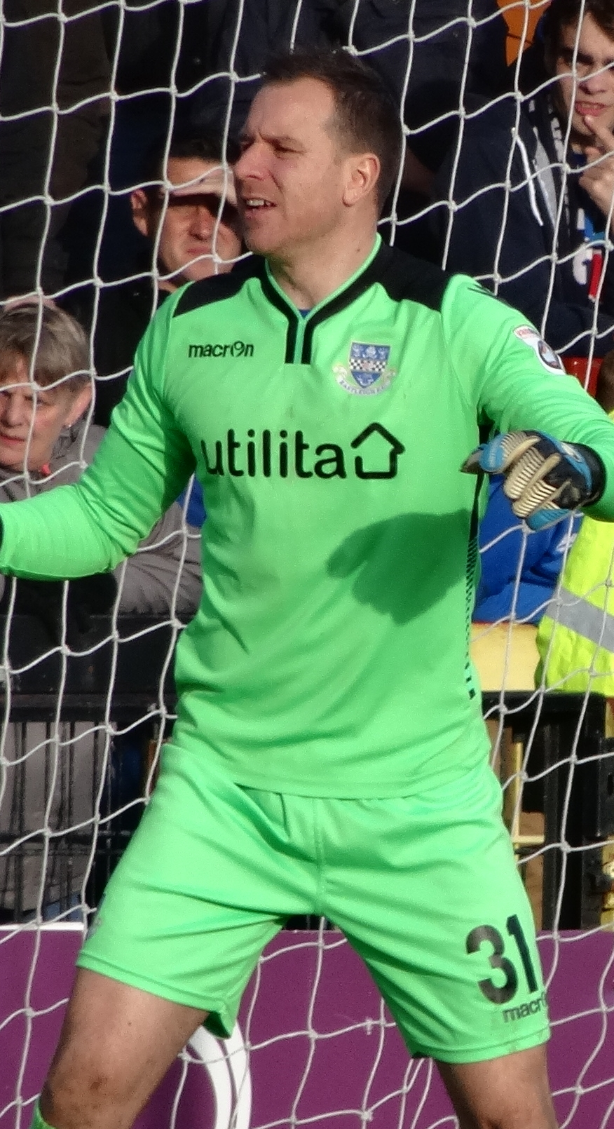 Ryan Clarke playing for Eastleigh against York City at Bootham Crescent, York on 4 March 2017